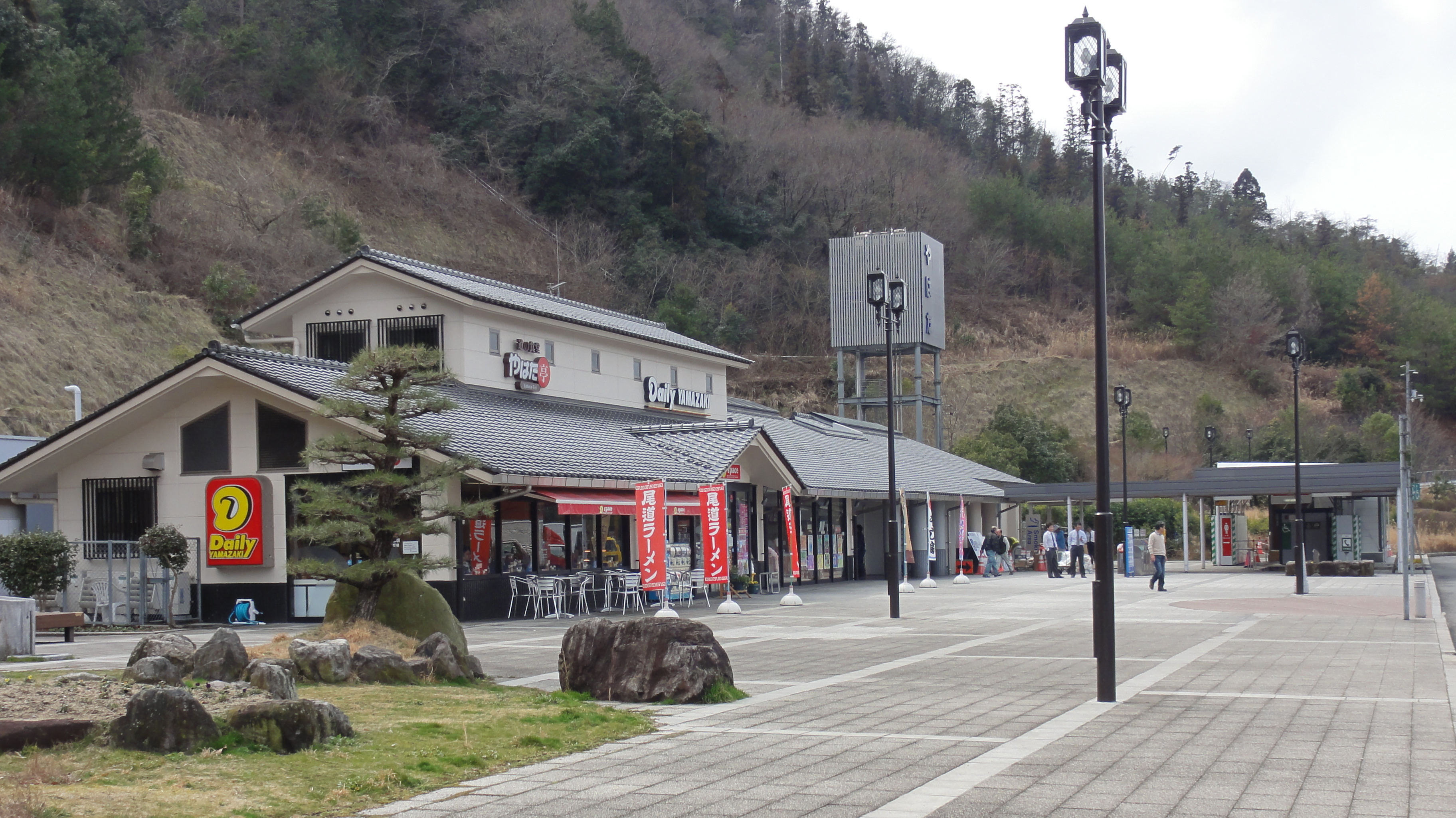 Yahata Parking Area,Hiroshima prefecture, Japan